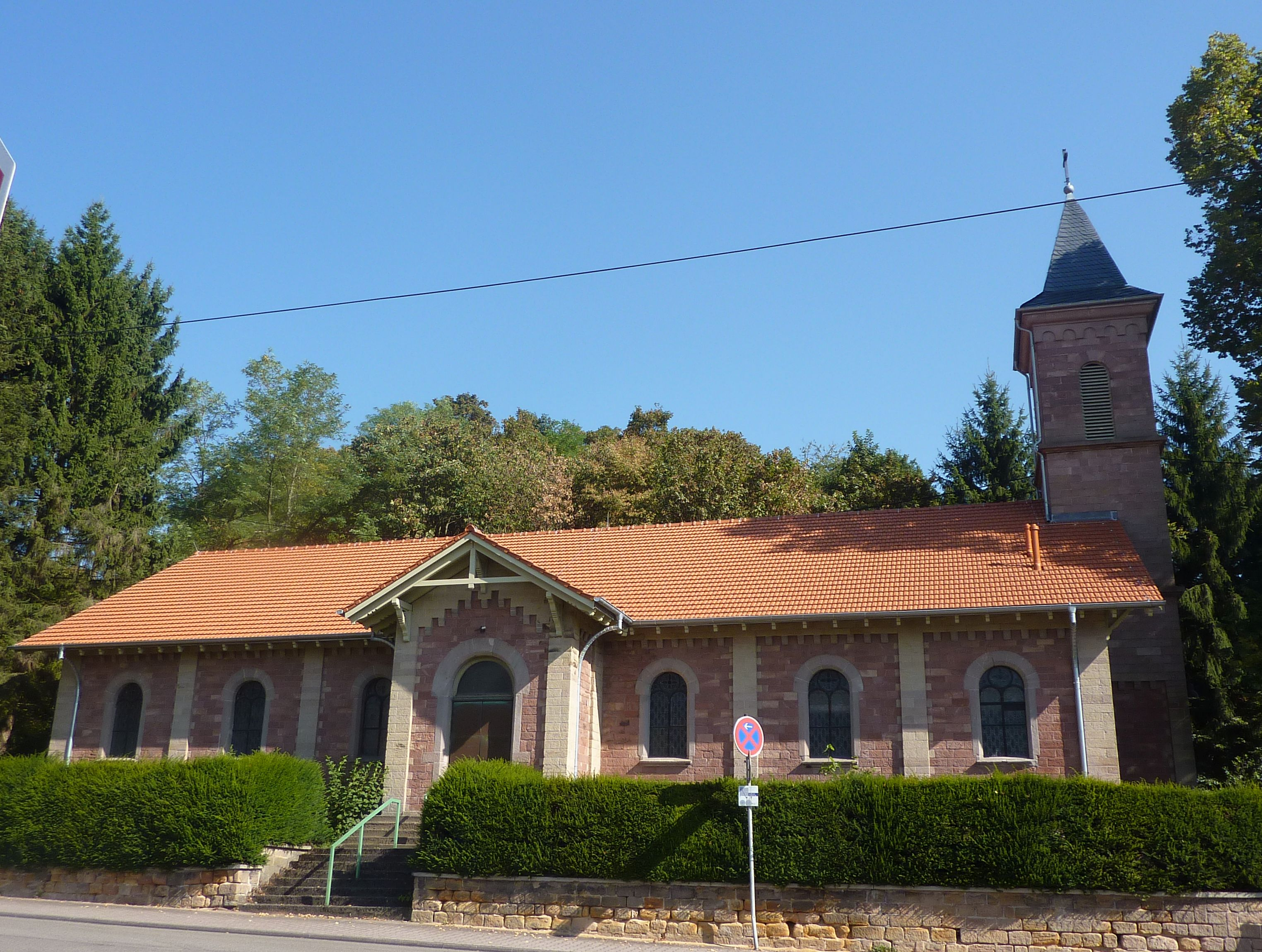 Protestant Church at Heiligenwald, Germany